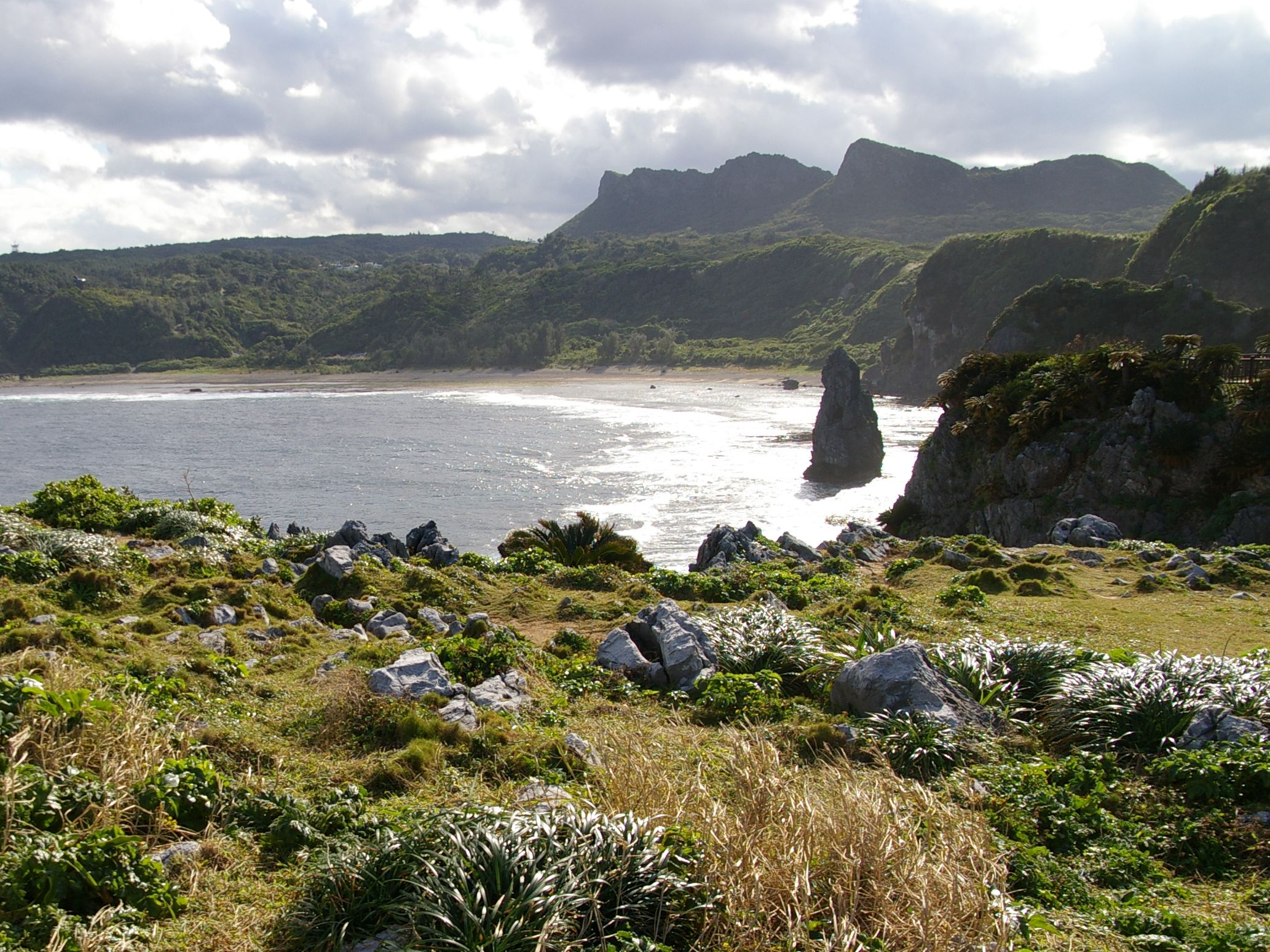 Hedo Utaki seen from the Cape Hedo.